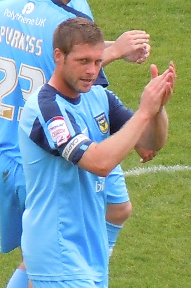 Dannie Bulman. Image cropped from original at flickr.